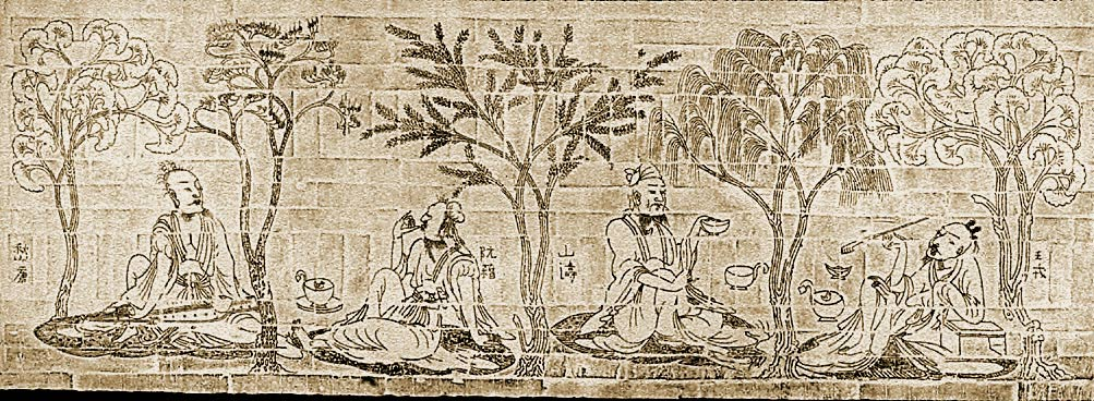 Seven worthies of the bamboo grove